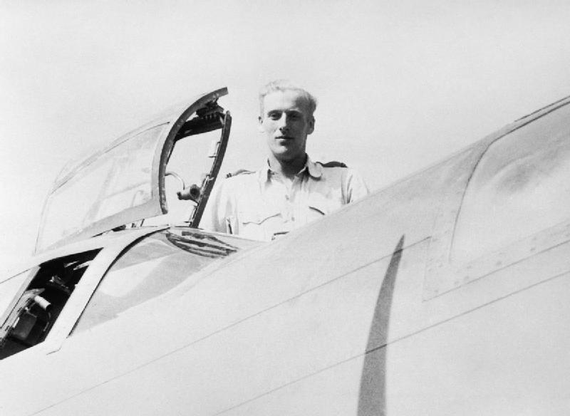 Flying Officer Adrian Warburton about to enter the cockpit of a Martin Maryland Mark I of No. 69 Squadron RAF at Luqa, Malta.